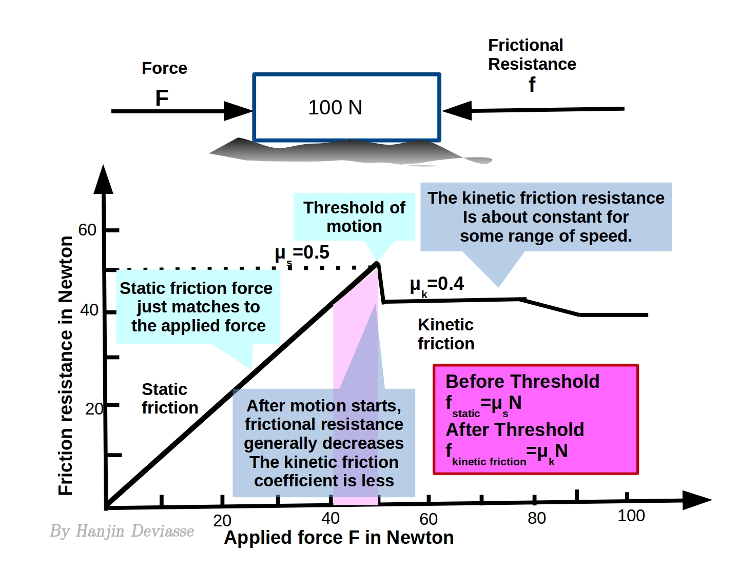 Static Friction & Kinetic Friction